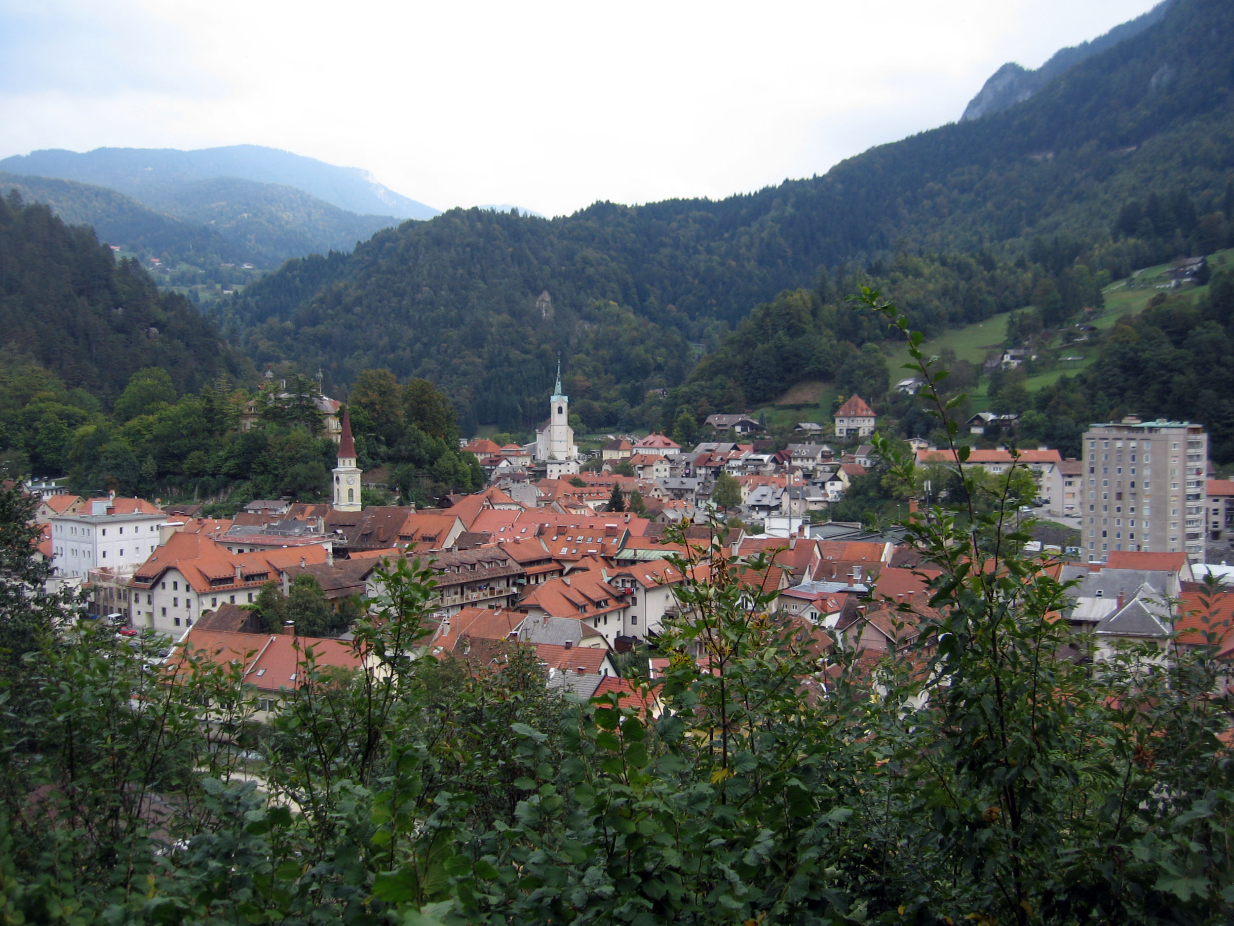 Tržič, Slovenia. Taken from the road to Ljubelj.